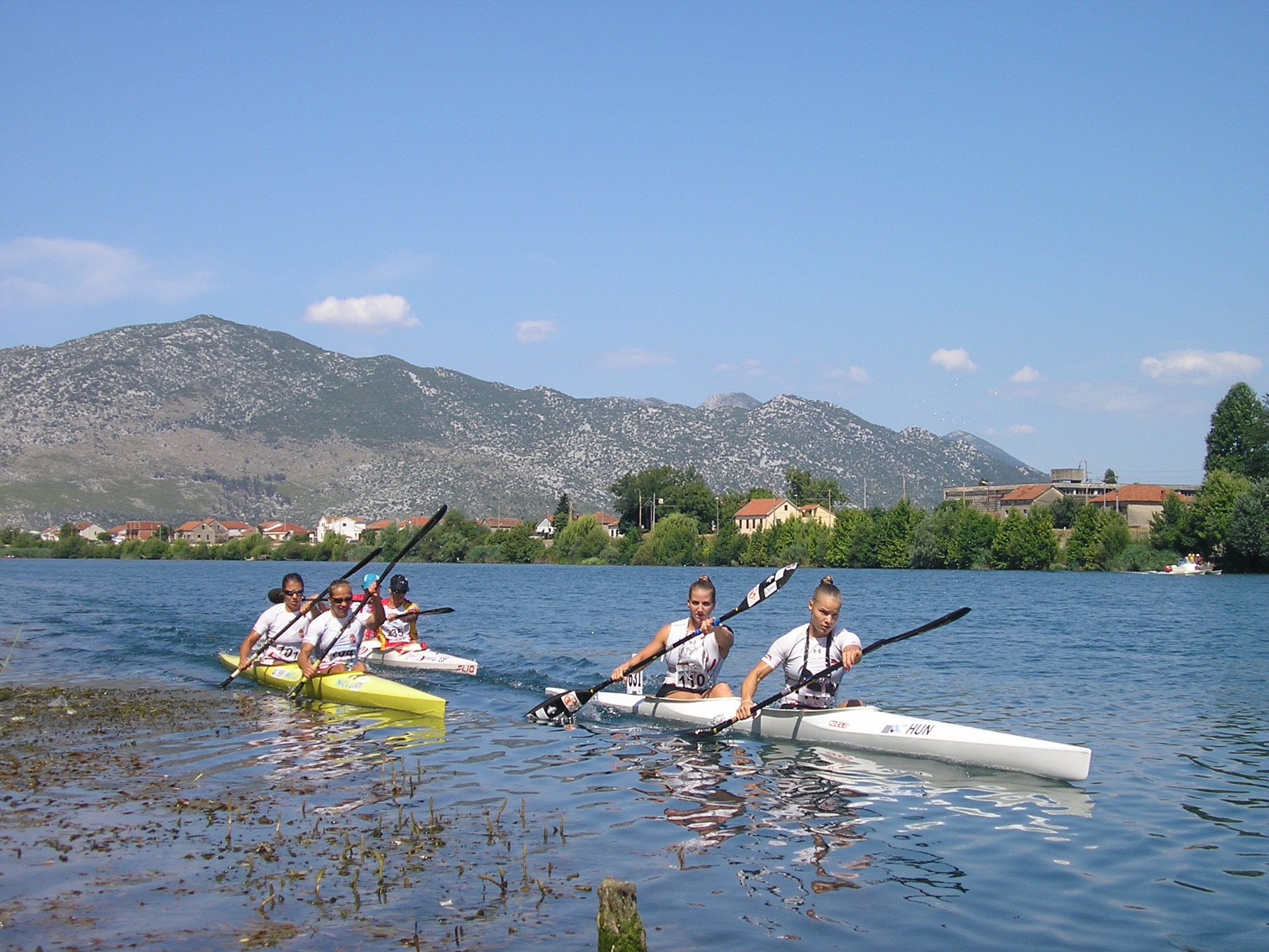 Canoe Marathon European Championships, Metkovic 2018, K2 women race